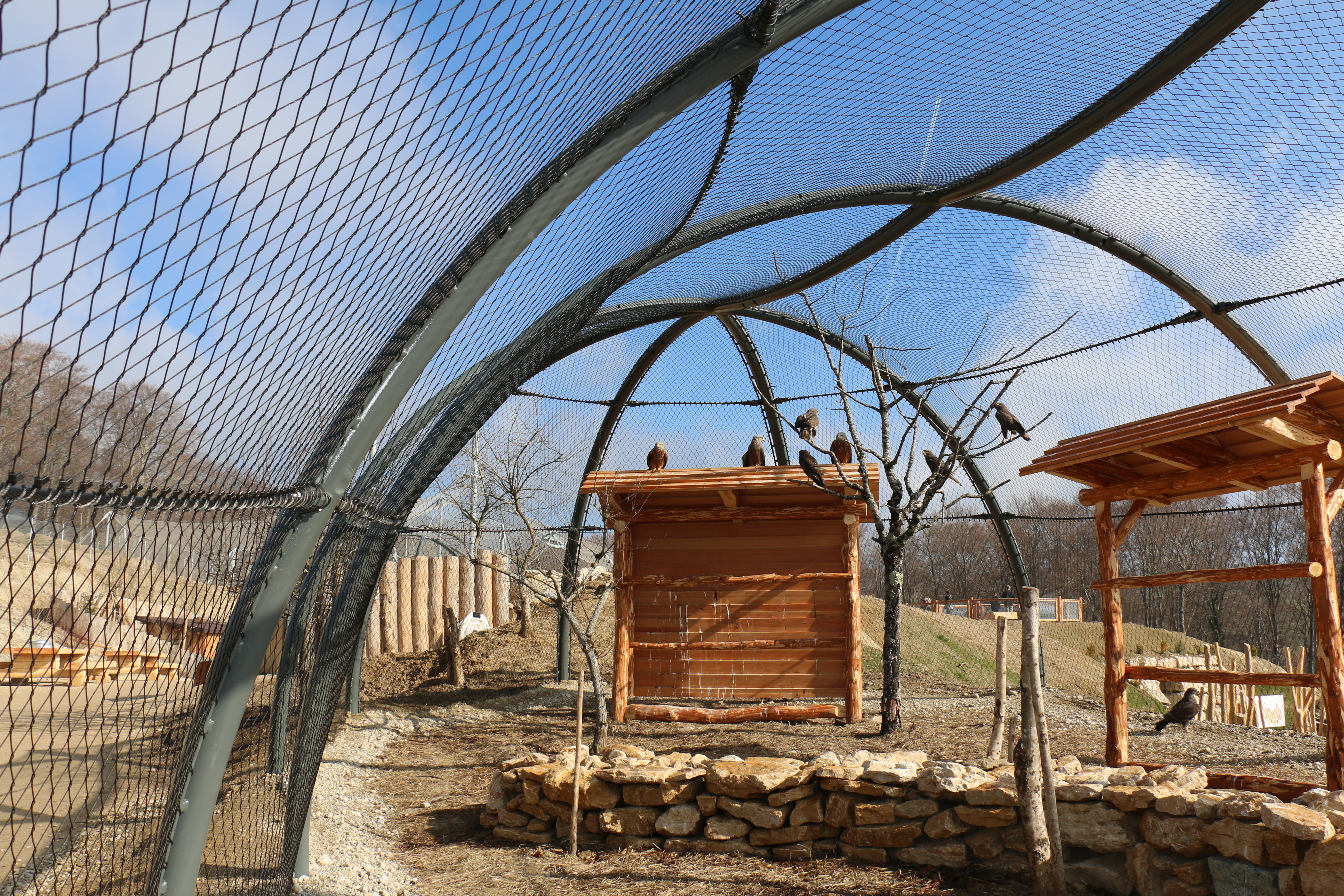 Zoo la Garenne